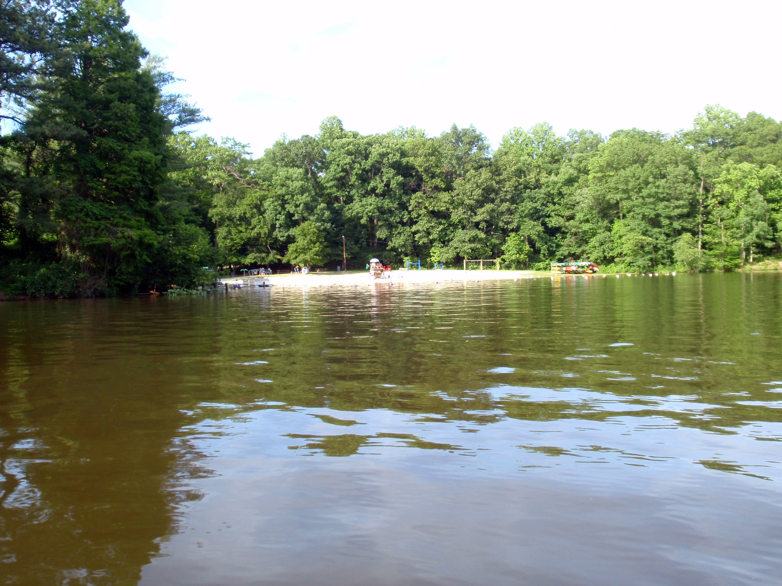 Recreation on Lake Barcroft, Virginia